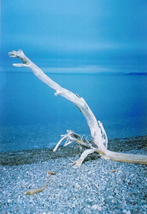 Bras d'Or Lake on Cape Breton Island, Nova Scotia, Canada